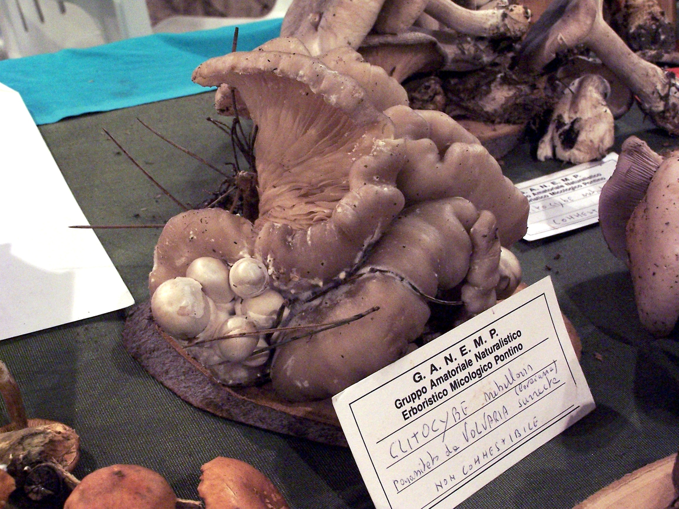 Lepista Nebularis with Volvaria surrecta